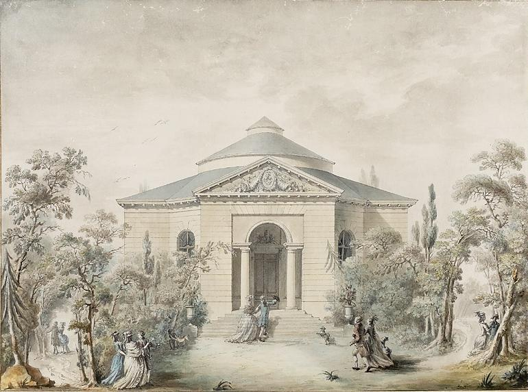 Anonymous painting of the Pavillon de Musique at Versailles owned by the Countess of Provence; In the town of Versailles, Marie Joséphine had a private Pavillion built; situated on the Avenue de Paris. The architect for the project was Jean-François-Thérèse Chalgrin. It is called the Le Pavillon de Musique [de la Comtesse de Provence].